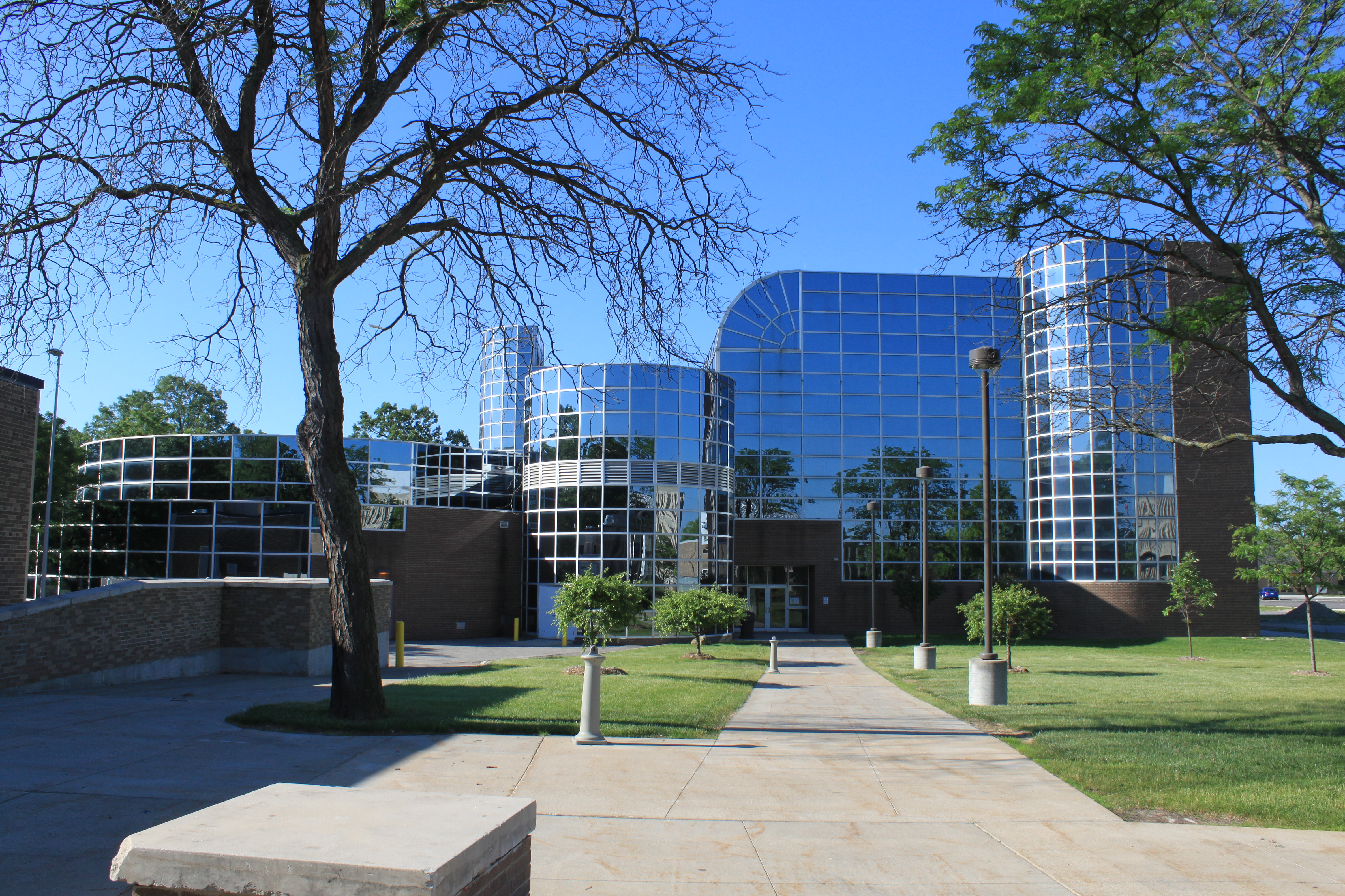 Henry Ford Community College, Technology Building, Dearborn, Michigan